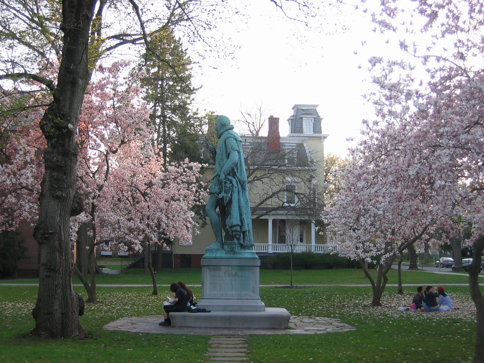 Statue of Prince William the Silent at Rutgers University, as photographed in the spring of 2005 by User:Rickyrab. Please abide by the terms on the bottom of Rickyrab's user page as far as licensing goes. According to the Rutgers University Library, the statue was donated anonymously by Dr. Fenton B. Turck in 1928, via "the Holland Society" (presumably the Holland Society of New York). A similar statue stands in The Hague.